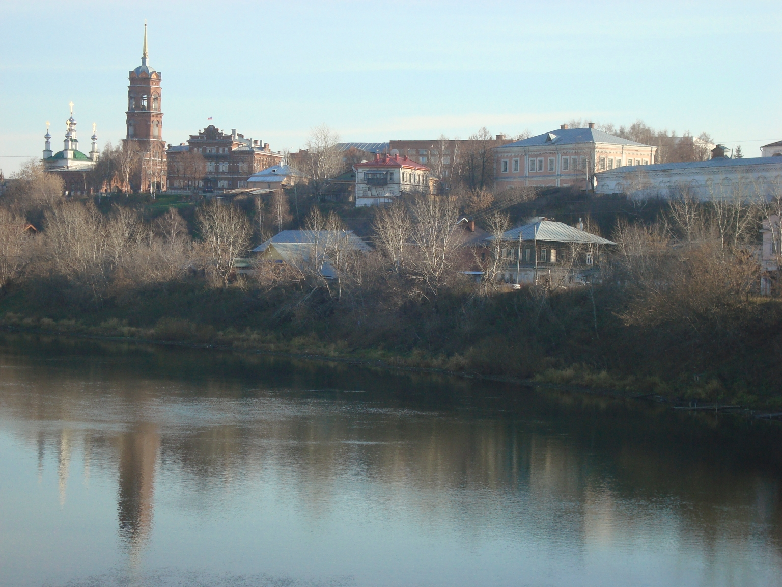 Kungur central part wiev at october. Russia.